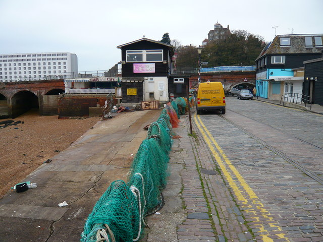 Folkestone Harbour